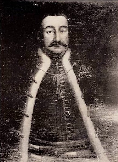 Count Apor István, treasurer and chief general of Transsylvania